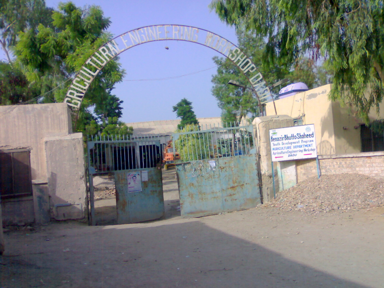 Agricultural Engineering Workshop Dadu